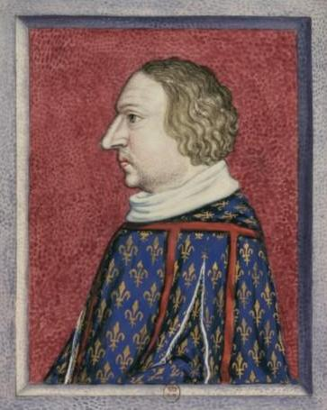 Portrait of Louis I of Naples